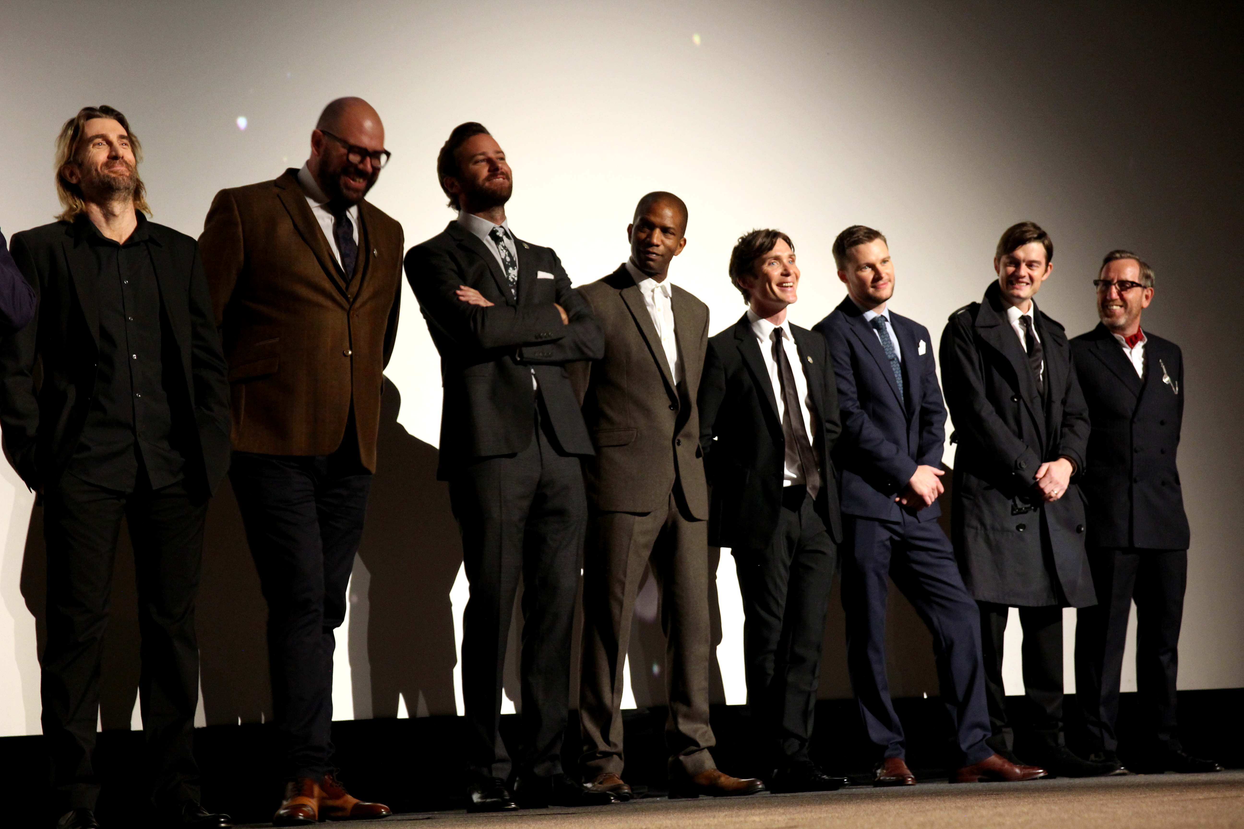 Free Fire cast at the BFI LFF gala